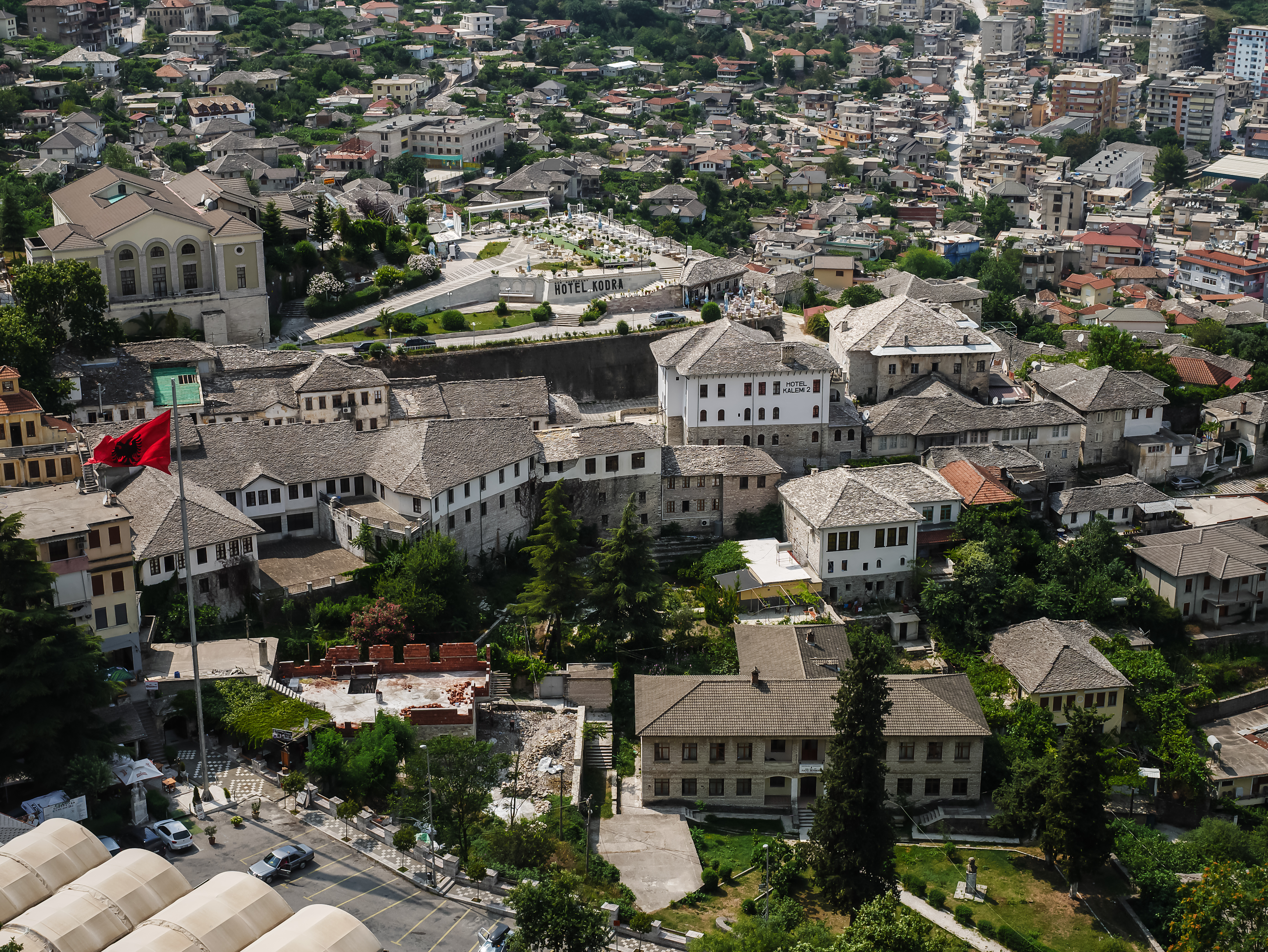 Gjirokastra Albania 2016